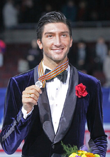 Evan Lysacek (USA) during the men's medals ceremony at the 2009 Four Continents Championships. He won the silver medal at this event.